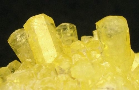 Ettringite Locality: N'Chwaning Mines, Kuruman, Kalahari manganese fields, Northern Cape Province, South Africa (Locality at ) Size: 3.3 x 2.6 x 2.5 cm. An exceptional, three-dimensional crust composed completely of superb Ettringite crystals. The Ettringites are gemmy, a beautiful lemon-yellow color, lustrous, and have excellent habit in sharp hexagonal prisms. The largest of the crystals reach about .5 cm, and on average they are about .3 cm. Very aesthetic. Ex. Charlie Key.